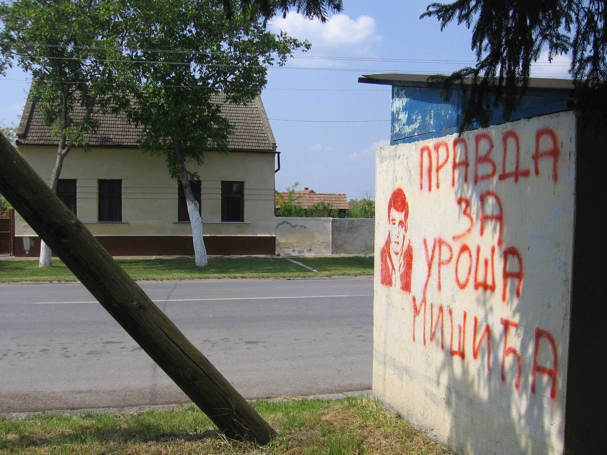 "Justice for Uroš Mišić" - Graffiti in support of a convicted hooligan Uroš Mišić in Čestereg, Serbia.